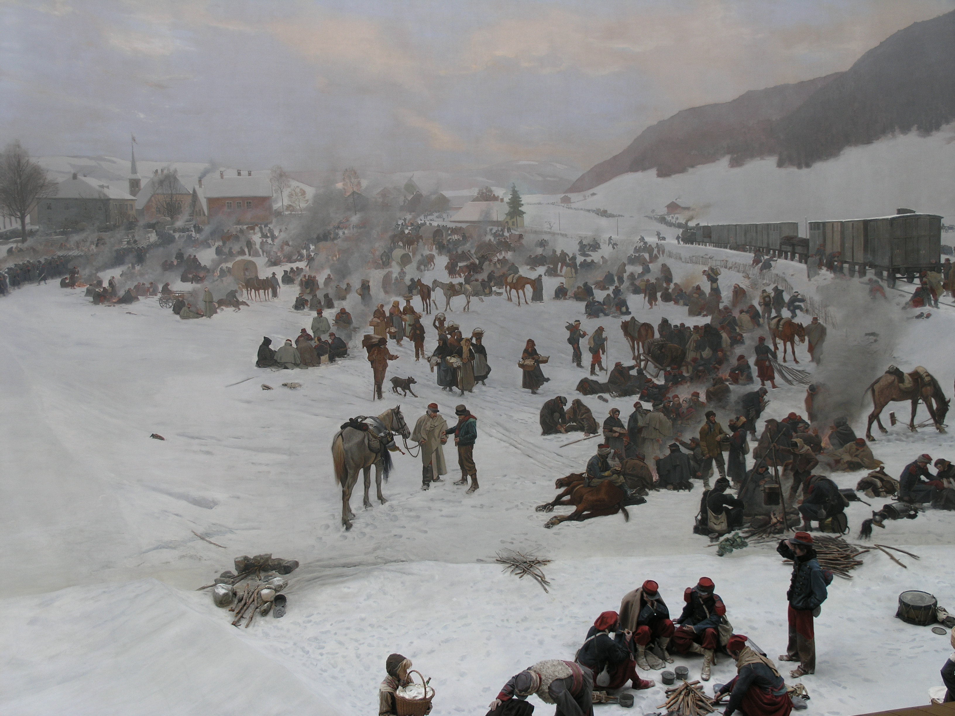 Bourbaki Panorama Luzern